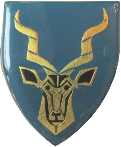 SADF Regiment Christiaan Beyer Shoulder Flash